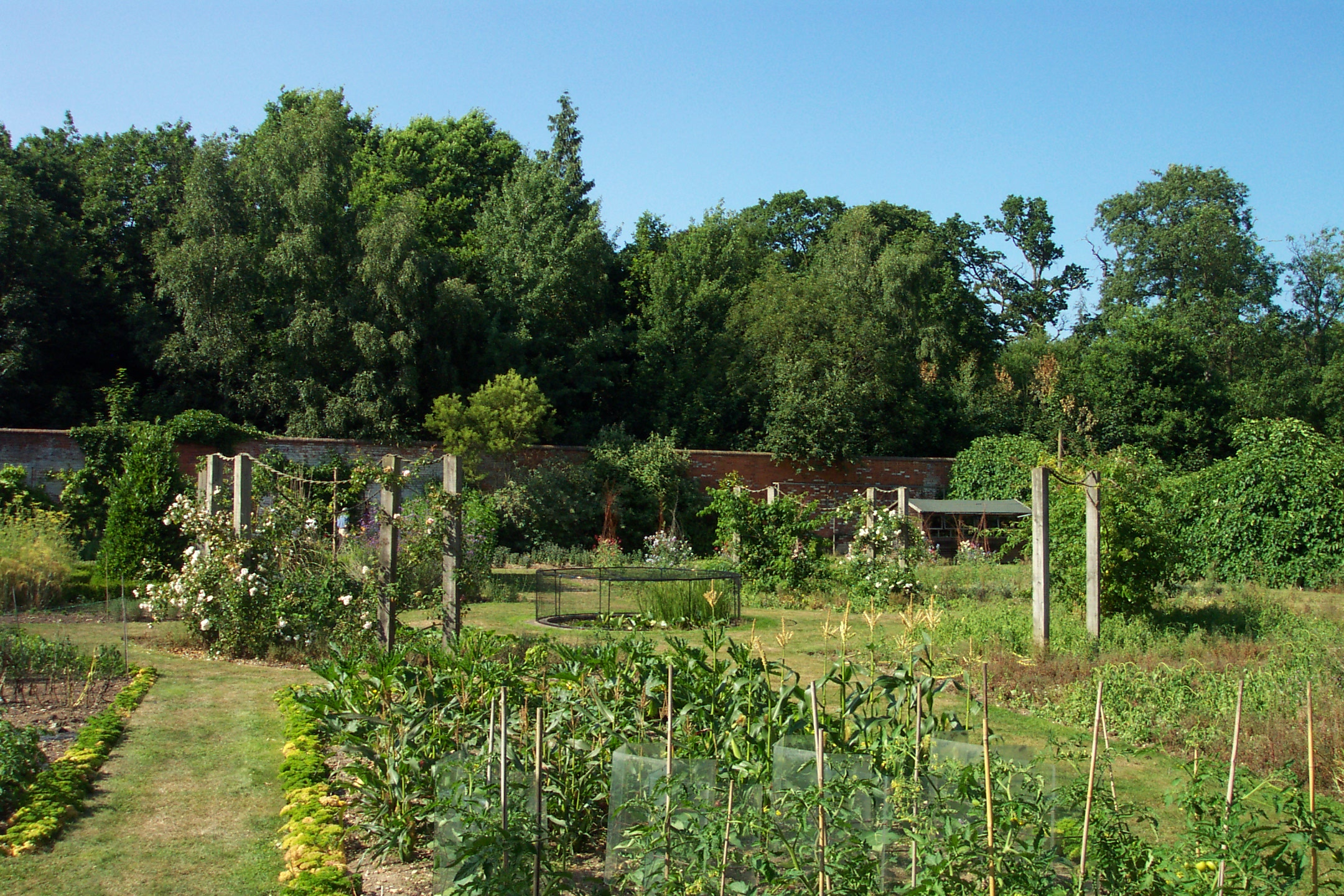 The Walled Garden in the Harris Garden on the University of Reading's Whikeknights Campus. Seen in June. For more information see the Wikipedia article Harris Garden.